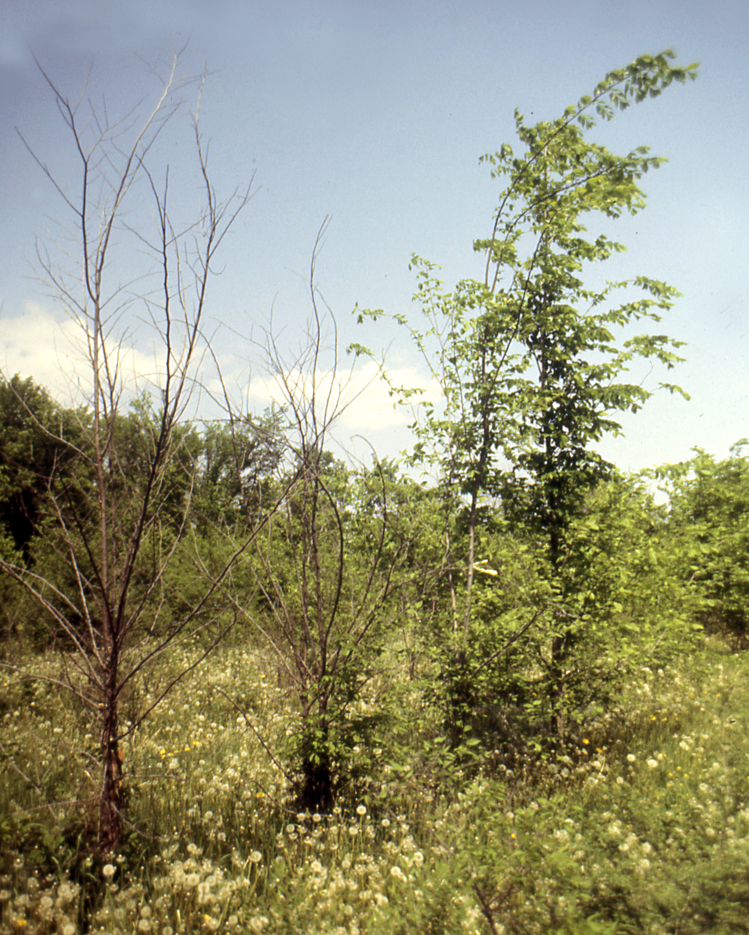 Results of artificial inoculation of Ophiostoma strains in elm cambium, Arlington Experimantal Station - Wisconsin 1987.06.14.(photo: Mihailo Grbić)